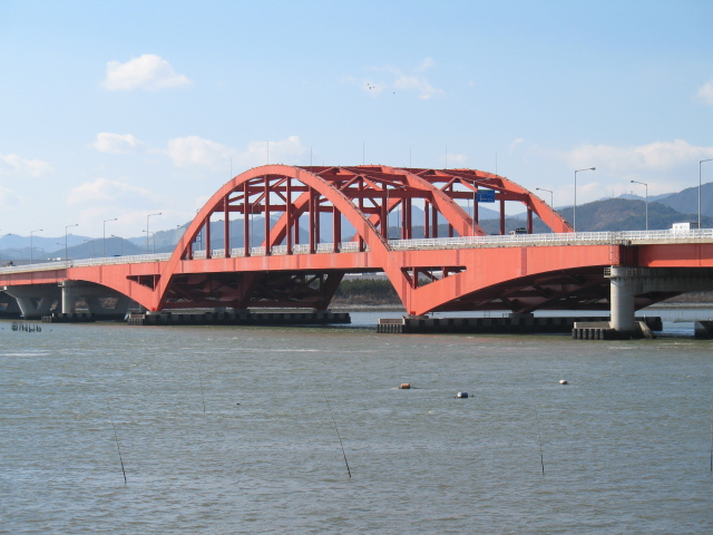 SinHo Bridge in Busan West Nakdong river side view